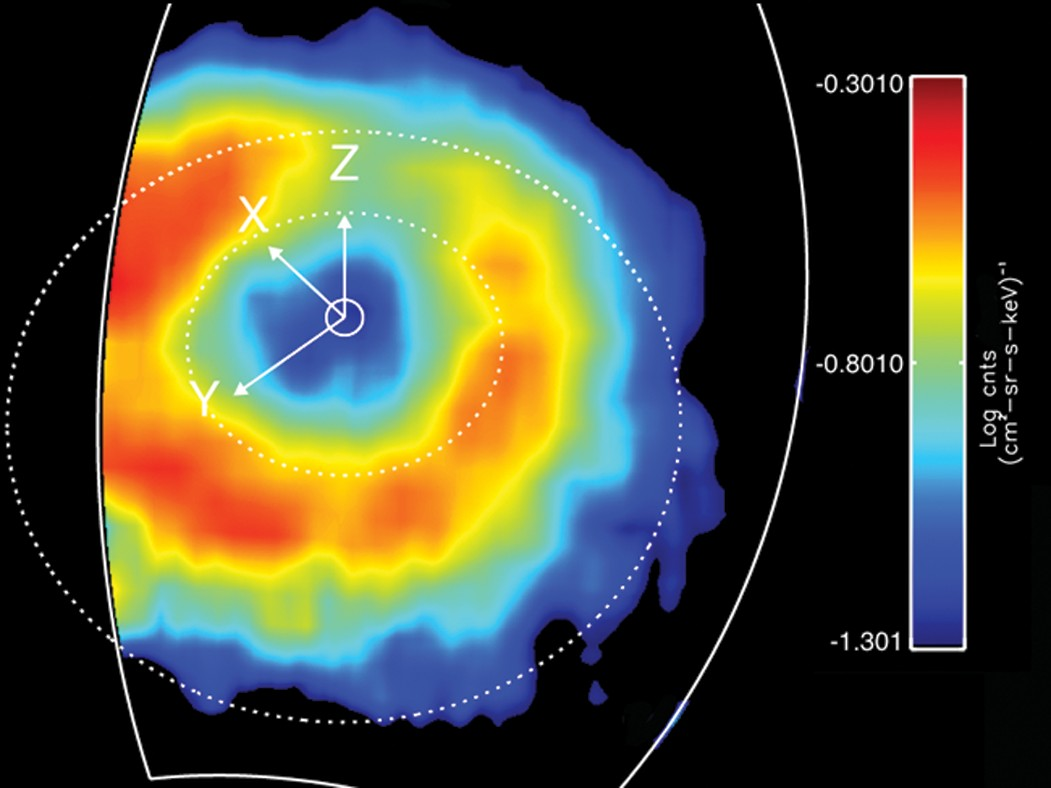 A false color map showing intensity of energetic (20-50 keV) neutral atoms escaping from the magnetosphere of Saturn. The large Toroidal feature is the ring current carried by energetic ions.